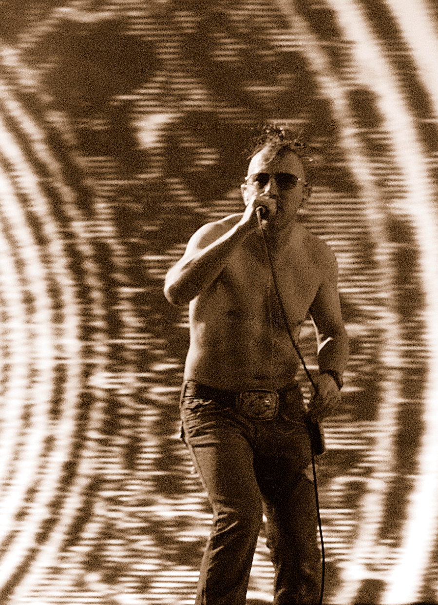 Maynard James Keenan performing at the 2006 Roskilde Festival